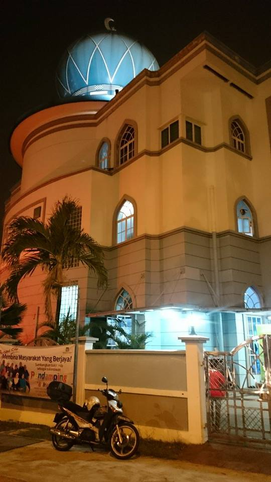 Al Istighfar Mosque, Pasir Ris, Singapore